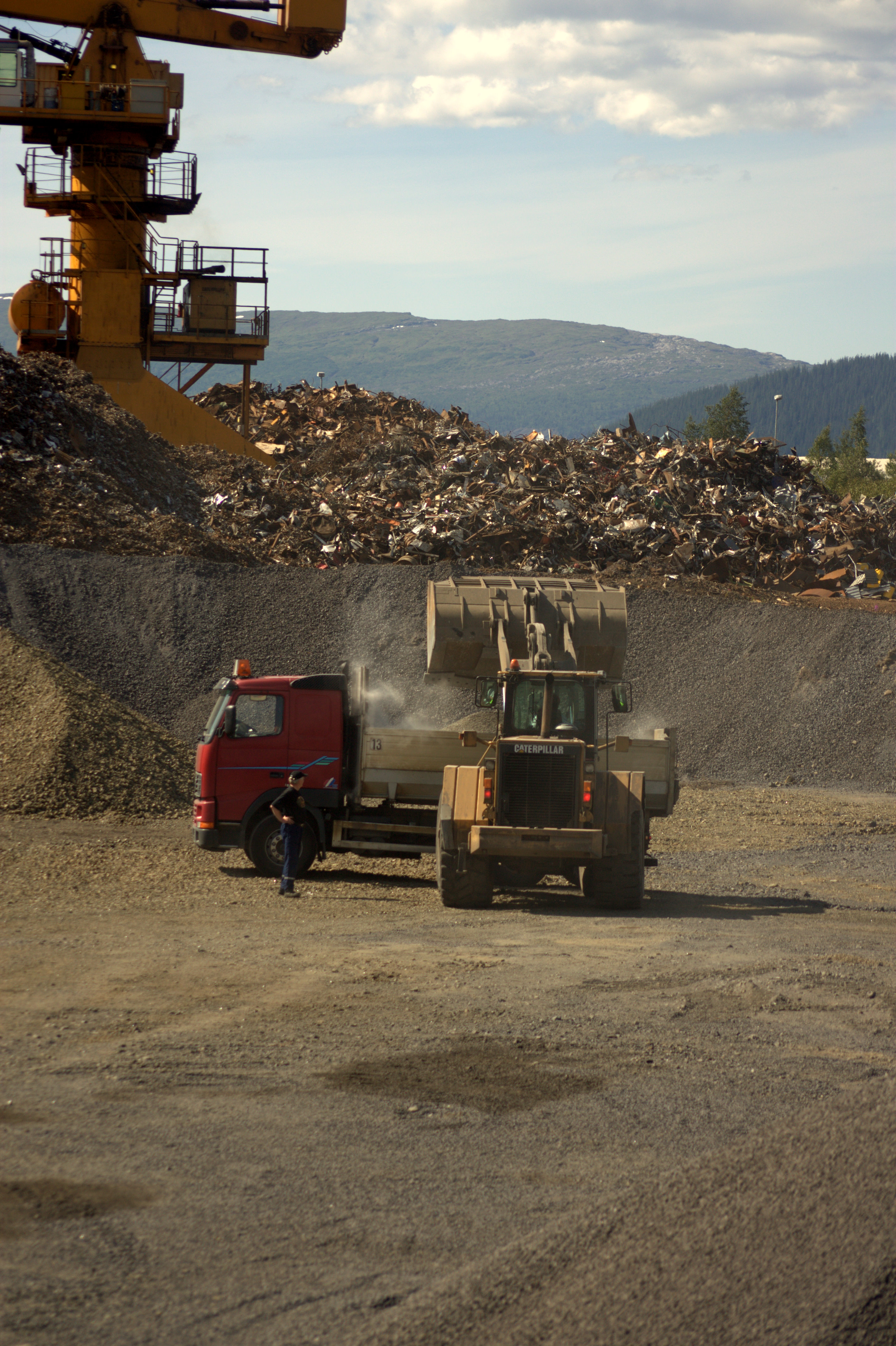 A truck beeing filled